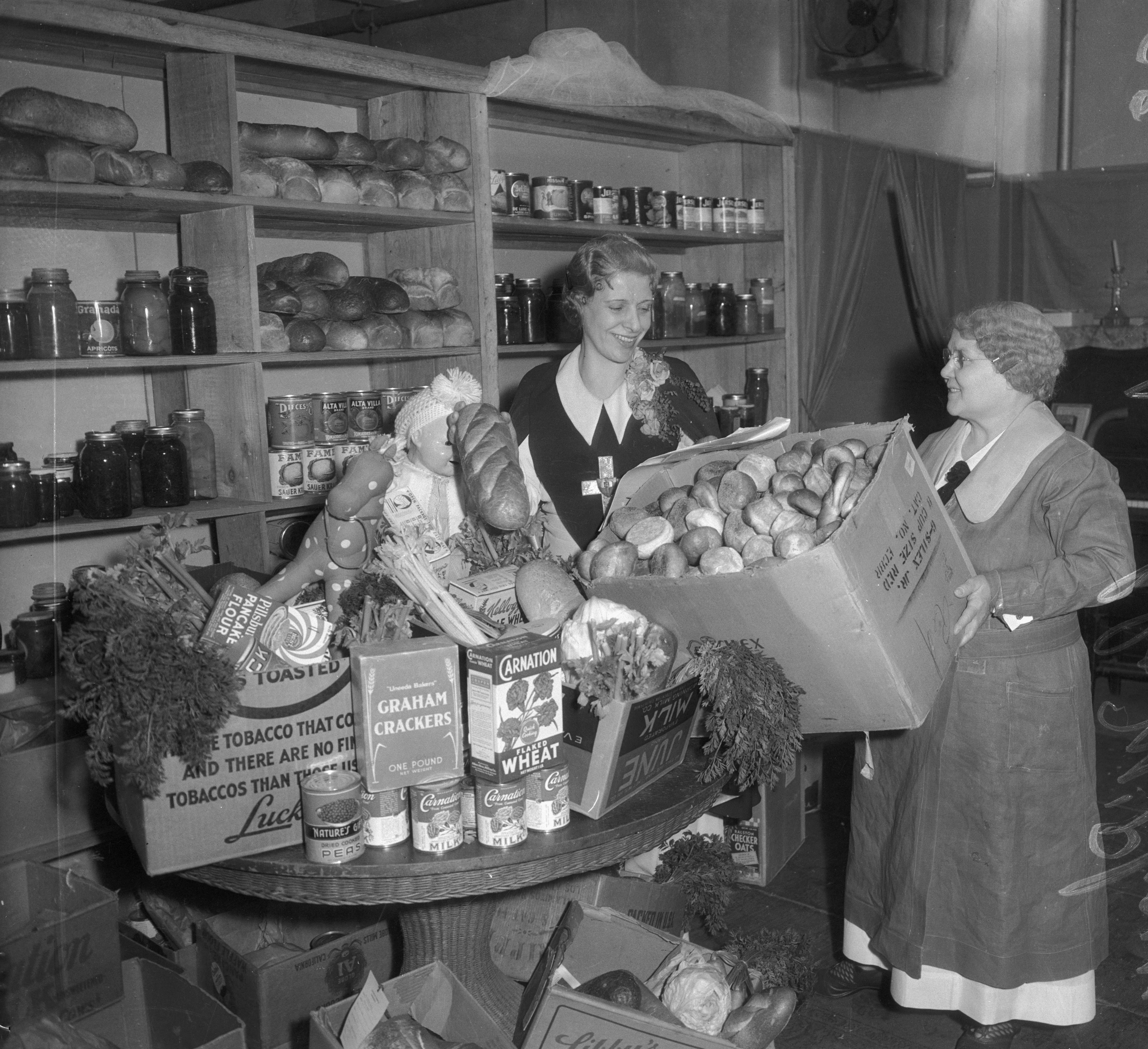 Title: Aimee Semple McPherson and Mrs. M. B. Godbey in a pantry preparing Christmas food baskets, circa 1935 Publication:Los Angeles Daily News Publication date:1935 Source:Los Angeles Times photographic archive, UCLA Library Licensing Note about non-renewal of copyright: [1]